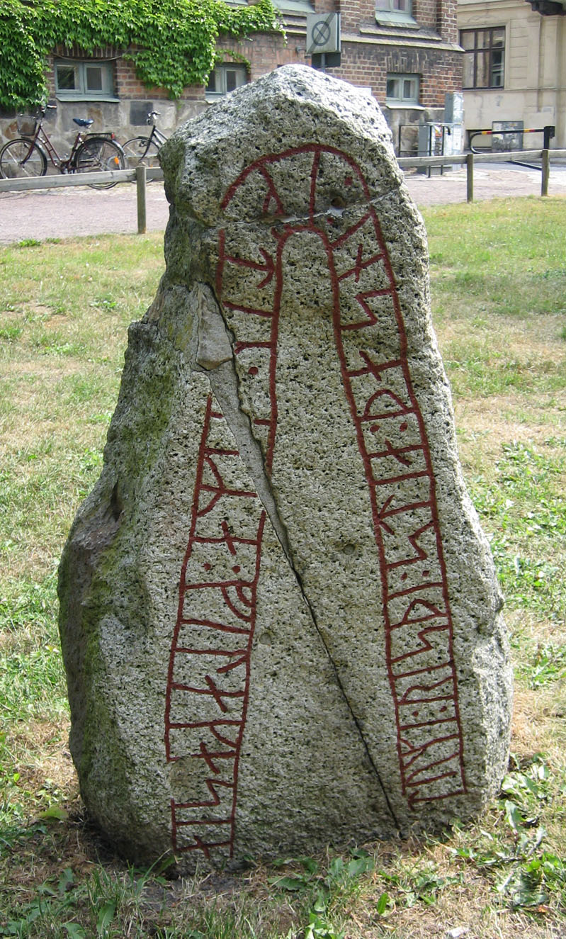 The Skivarp runestone (DR 270), Lund, Sweden. Photo taken summer 2006.